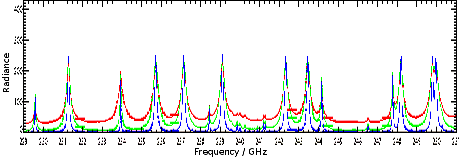 Electromagnetic absorbtion spectrum of the atmosphere between 230 and 250 GHz. Red: 100, green: 30, blue: 10 hPa pressure.